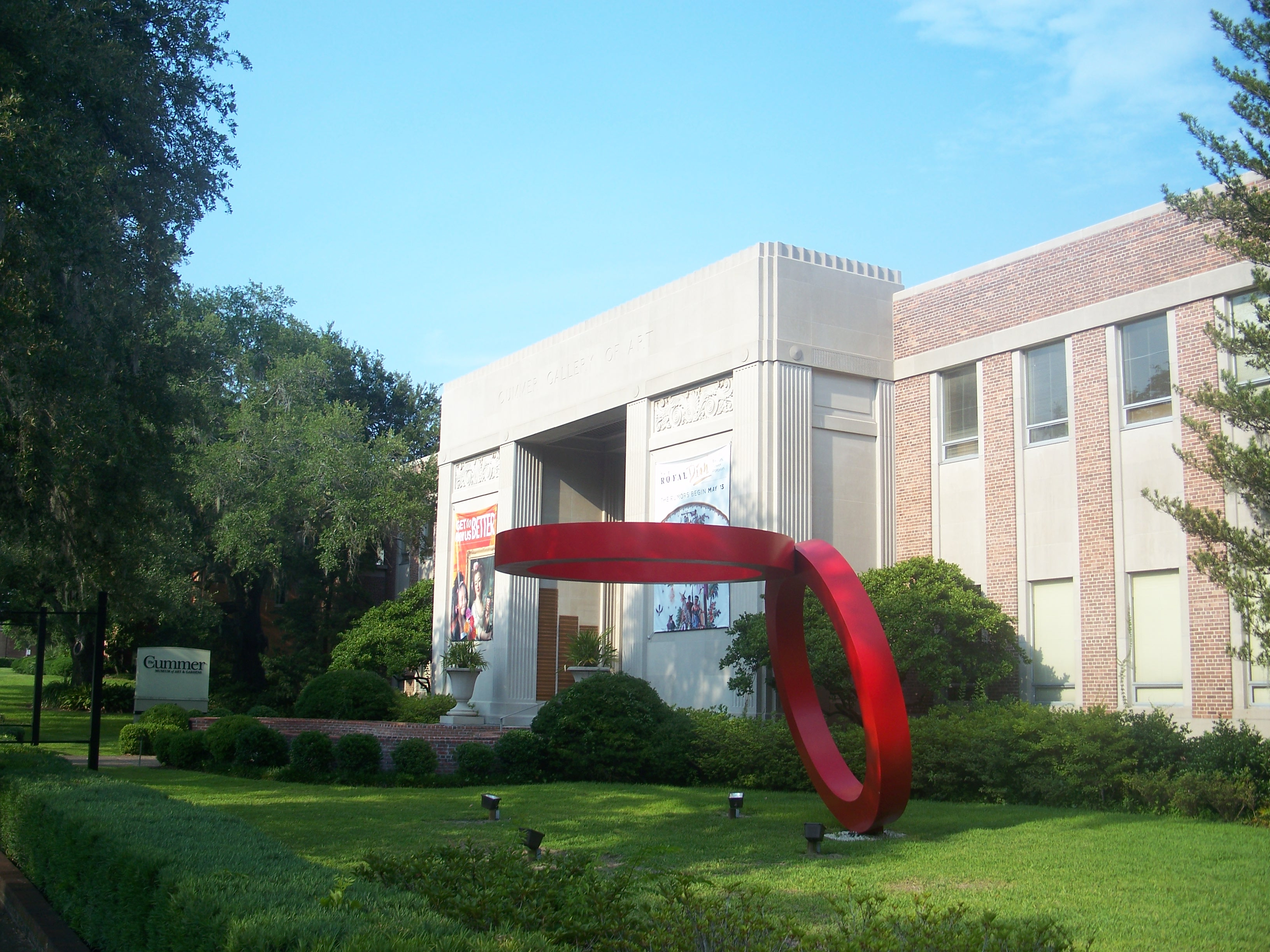 Jacksonville, Florida: Cummer Museum of Art and Gardens